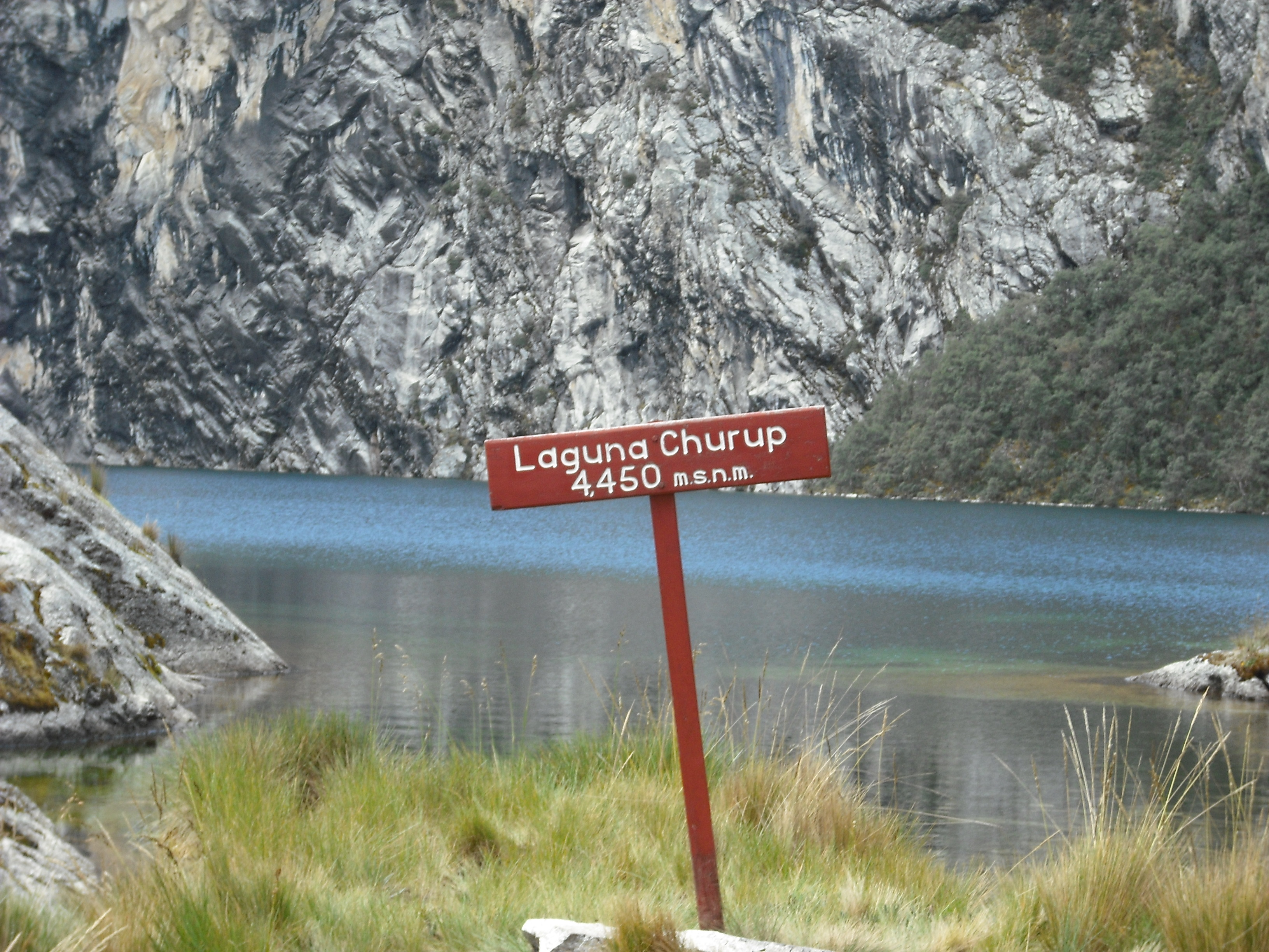 Churup Laguna, National Parc of Huascarán, near Huaraz, Peru